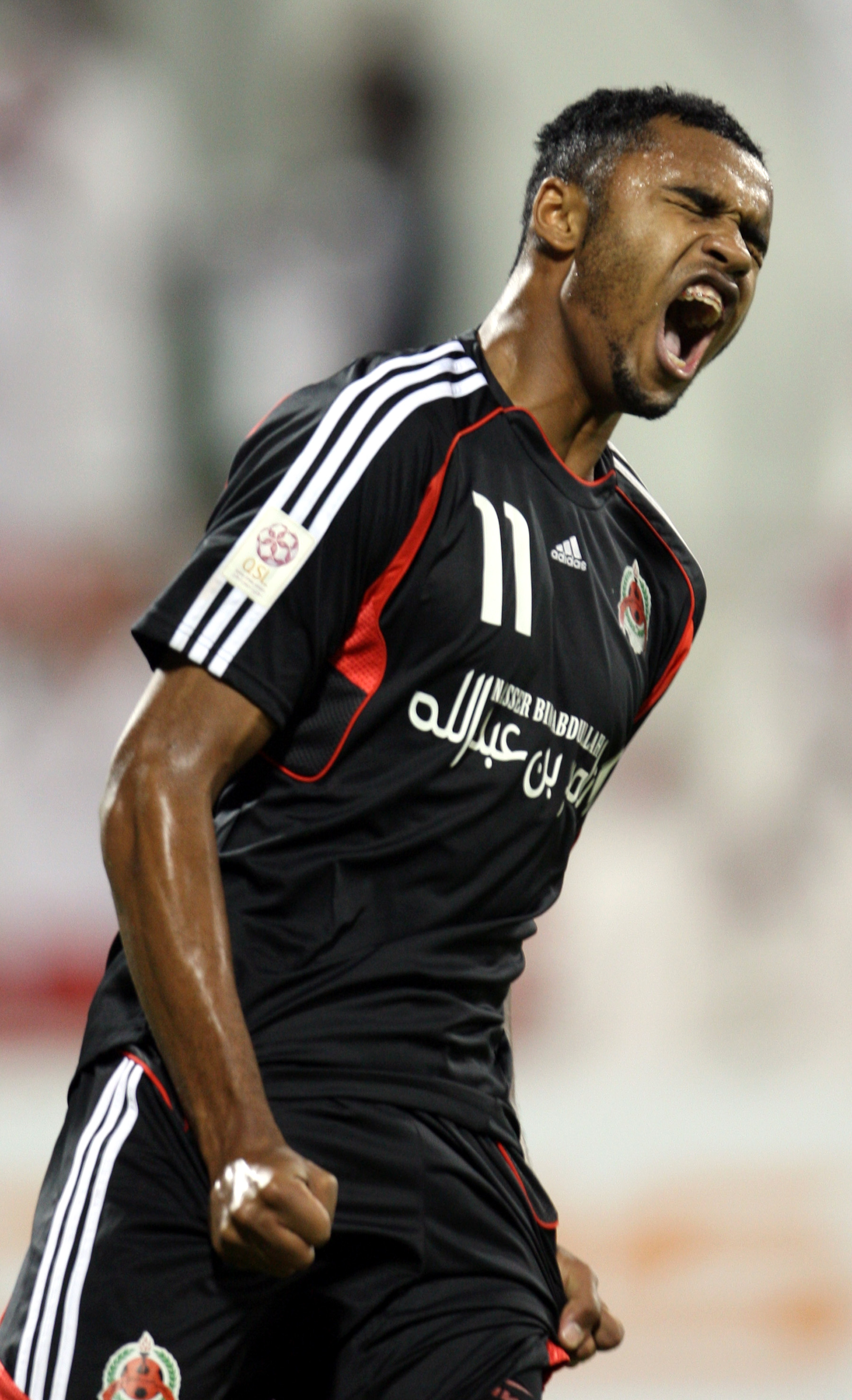 Al Rayyan's Fahad Khalfan Al Balooshi shouts during a Qatar Stars League match. Pic by Mohan